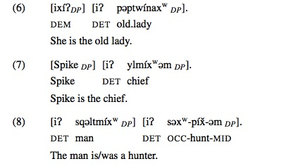 Okanagan language example